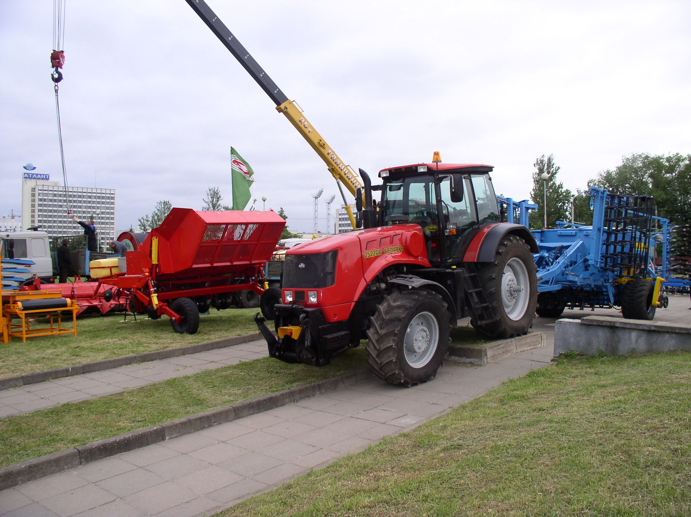 Tractor Belarus 2522DV. Agriculture Expo in Minsk, Belarus.